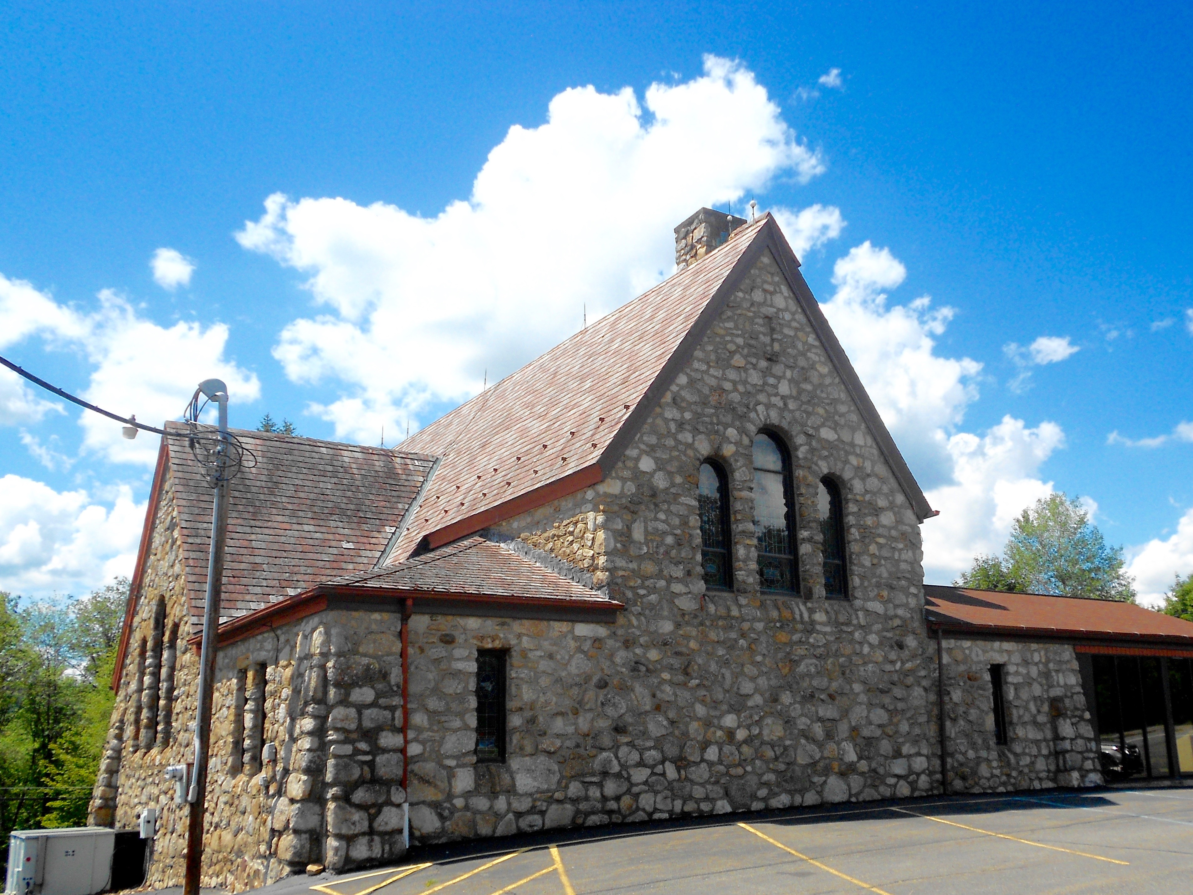 Cross Road Assembly of God Church in Elmhurst Township, Lackawanna County, Pennsylvania, north of Moscow, PA